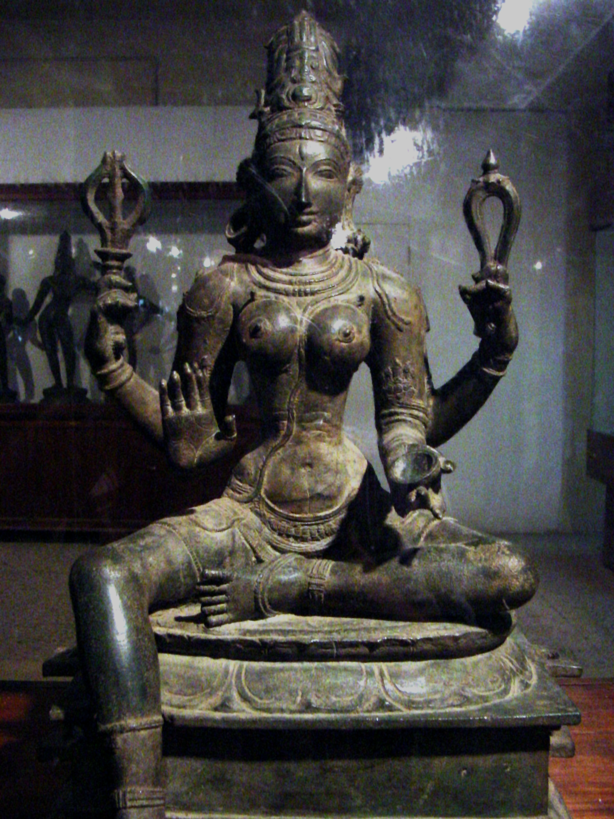 Maheshvari. Chola period, 11th century. Madras Museum.